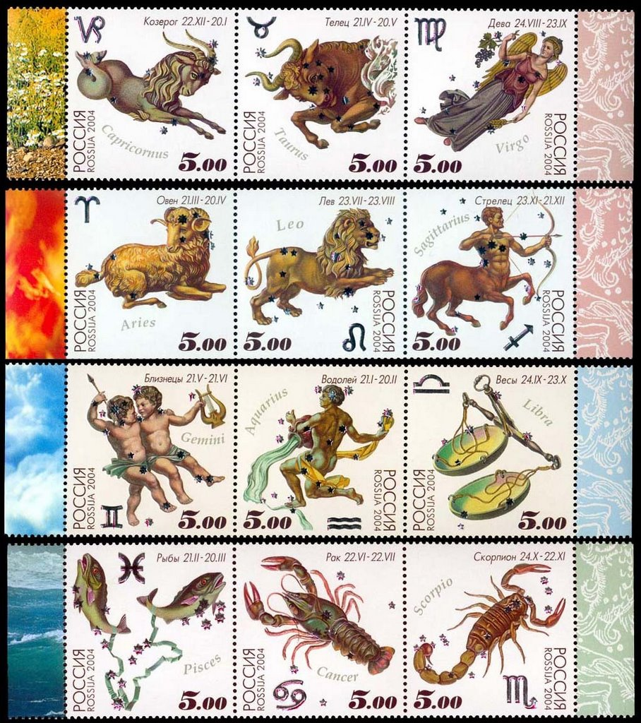 Zodiac symbols. Stamps of Russia, 2004.